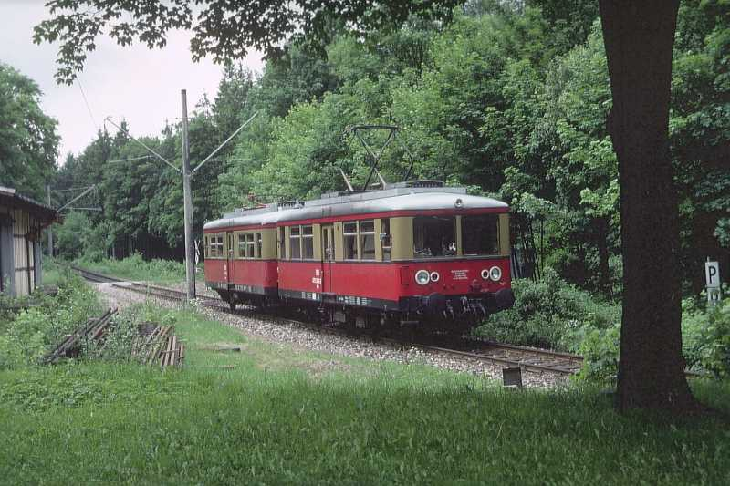 DBAG Class 479 (prior DR Class 279) near Cursdorf